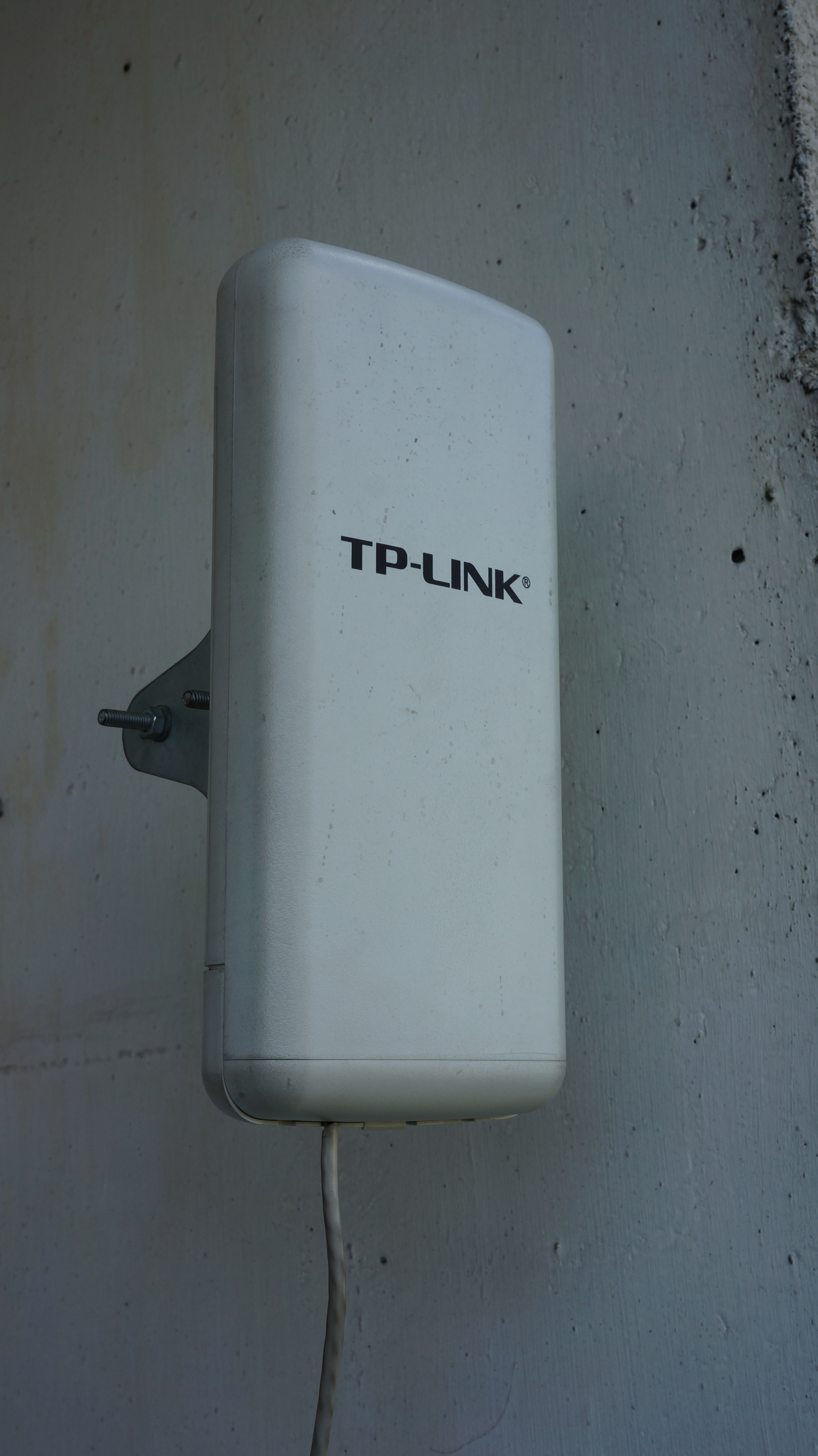 An outdoor TP-Link access point.